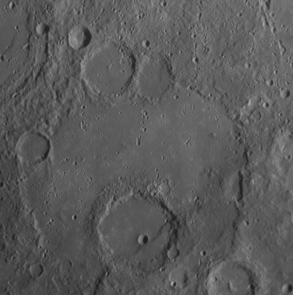 Kunisada crater on Mercury. MESSENGER Narrow Angle Camera. This is from MESSENGER's first flyby of Mercury. Emission Angle: 16.3 Incidence Angle: 71.7 Latitude: 2.3 Longitude: 113.3 Phase Angle: 56.3